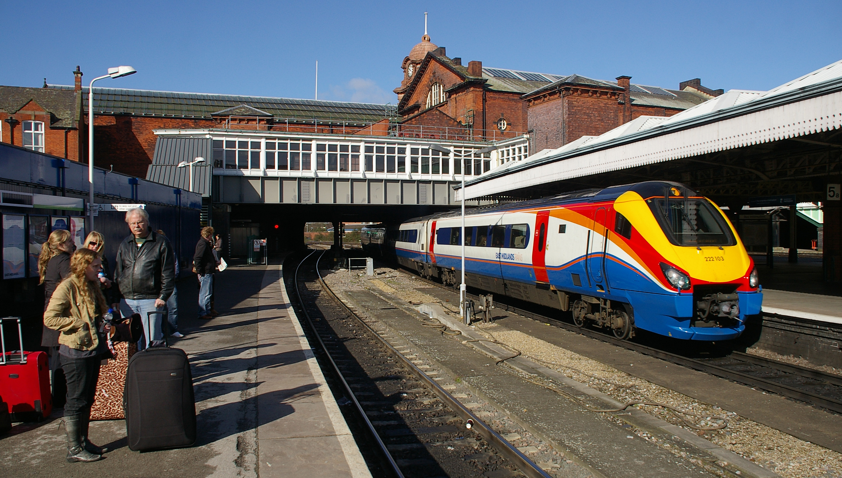 222103 departs Nottingham bound for London St Pancras.